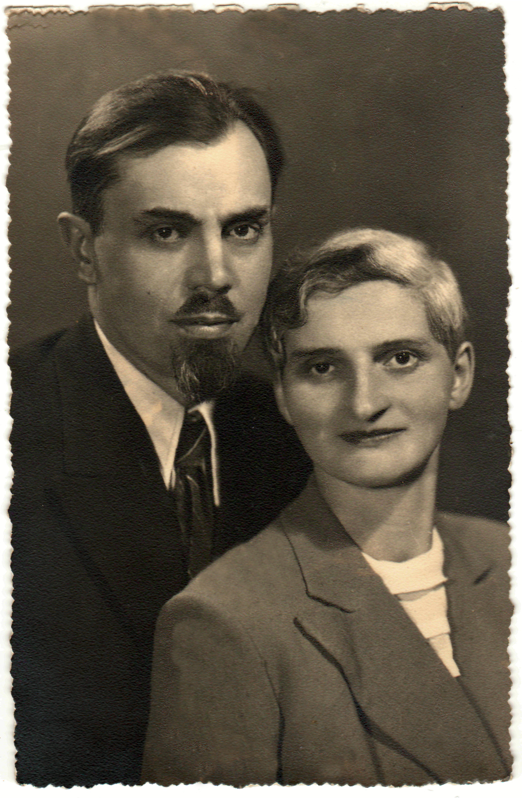 Роман Луцик (1900—1974) з дружиною Іриною Луцик (1907—1988), у дівоцтві Подлуською